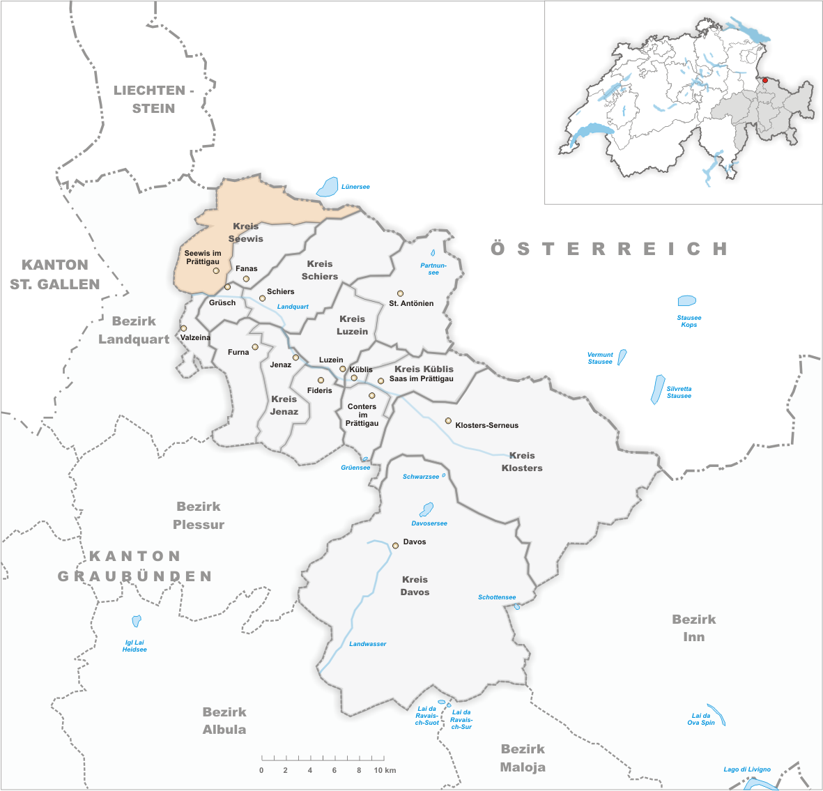 Municipality Seewis im Prättigau